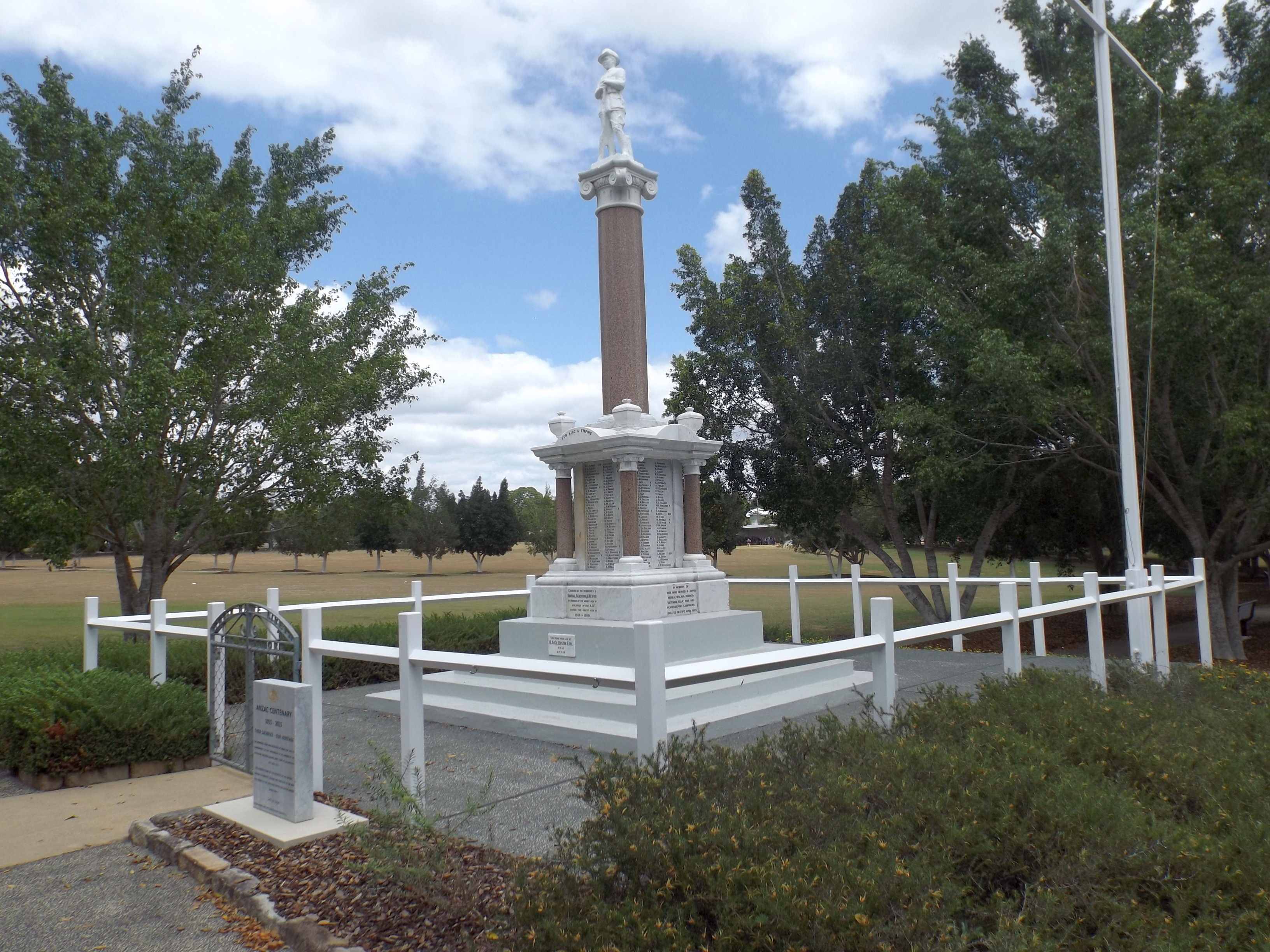 Photo of Booval War Memorial at Cameron Park, Booval, Ipswich, Queensland, Australia.